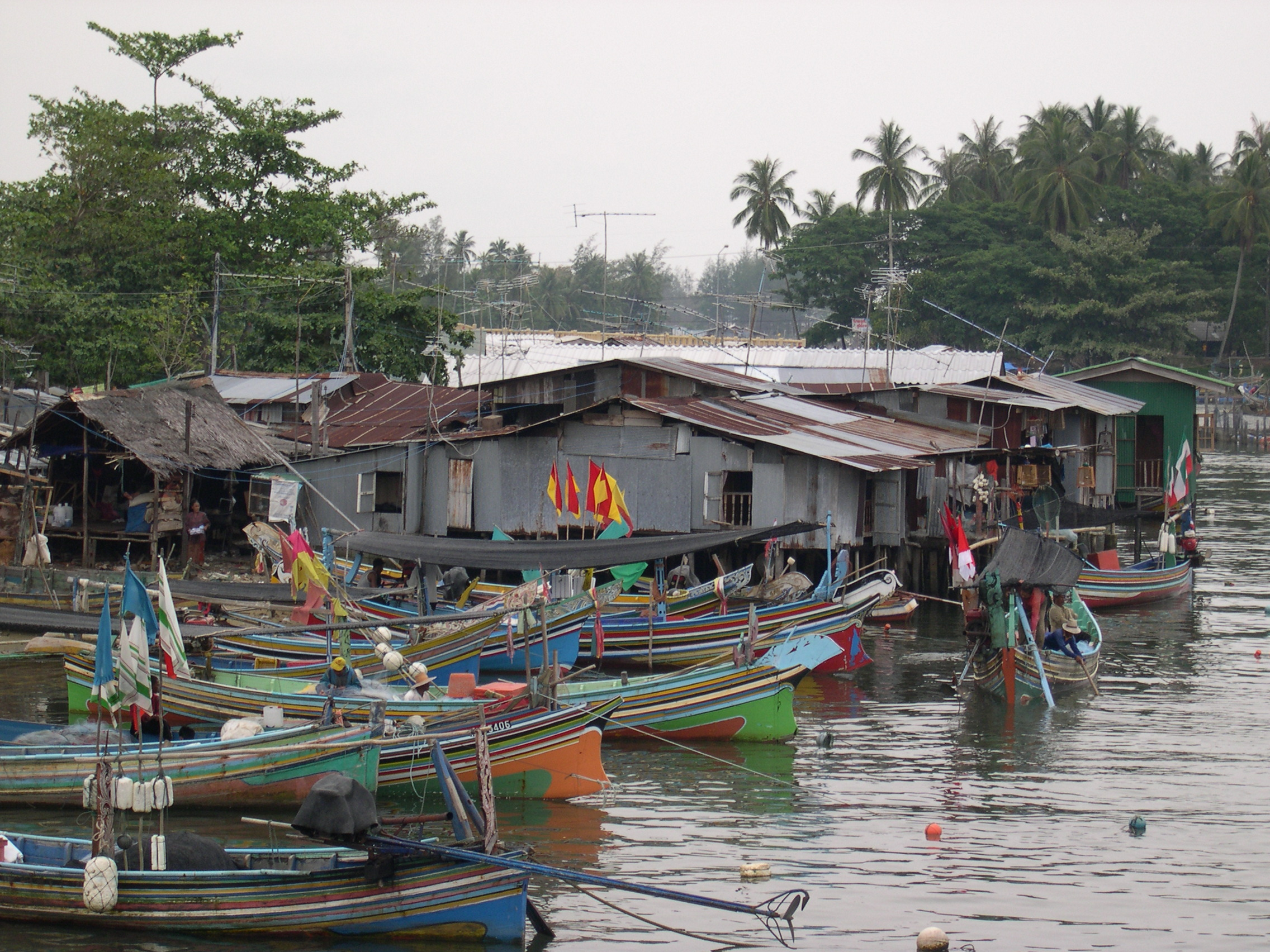 Fishing Village in Narathiwat